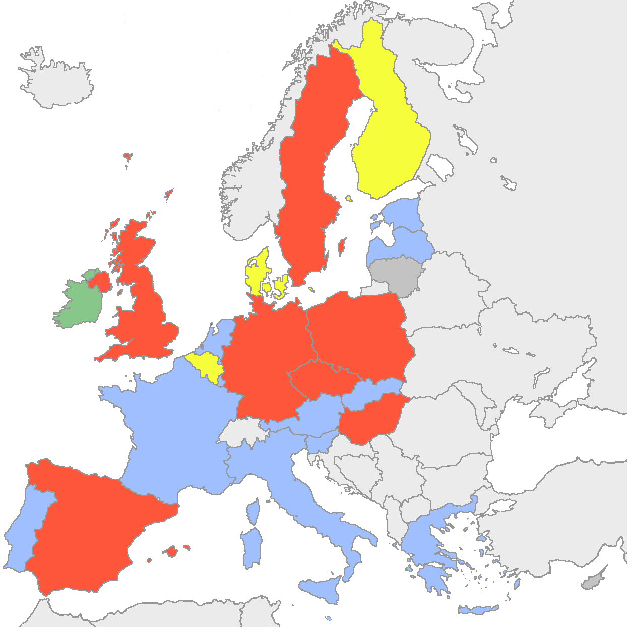 EU member-states by EU party afilliations of their heads of government.